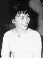 Madame Nhu